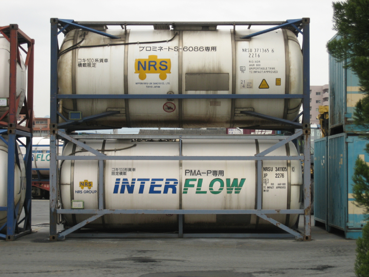 NRS's tank container.